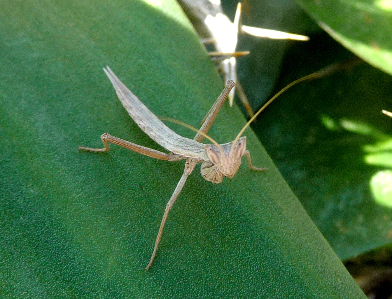 Amelinae cf. Apteromantis aptera or Ameles group picteti